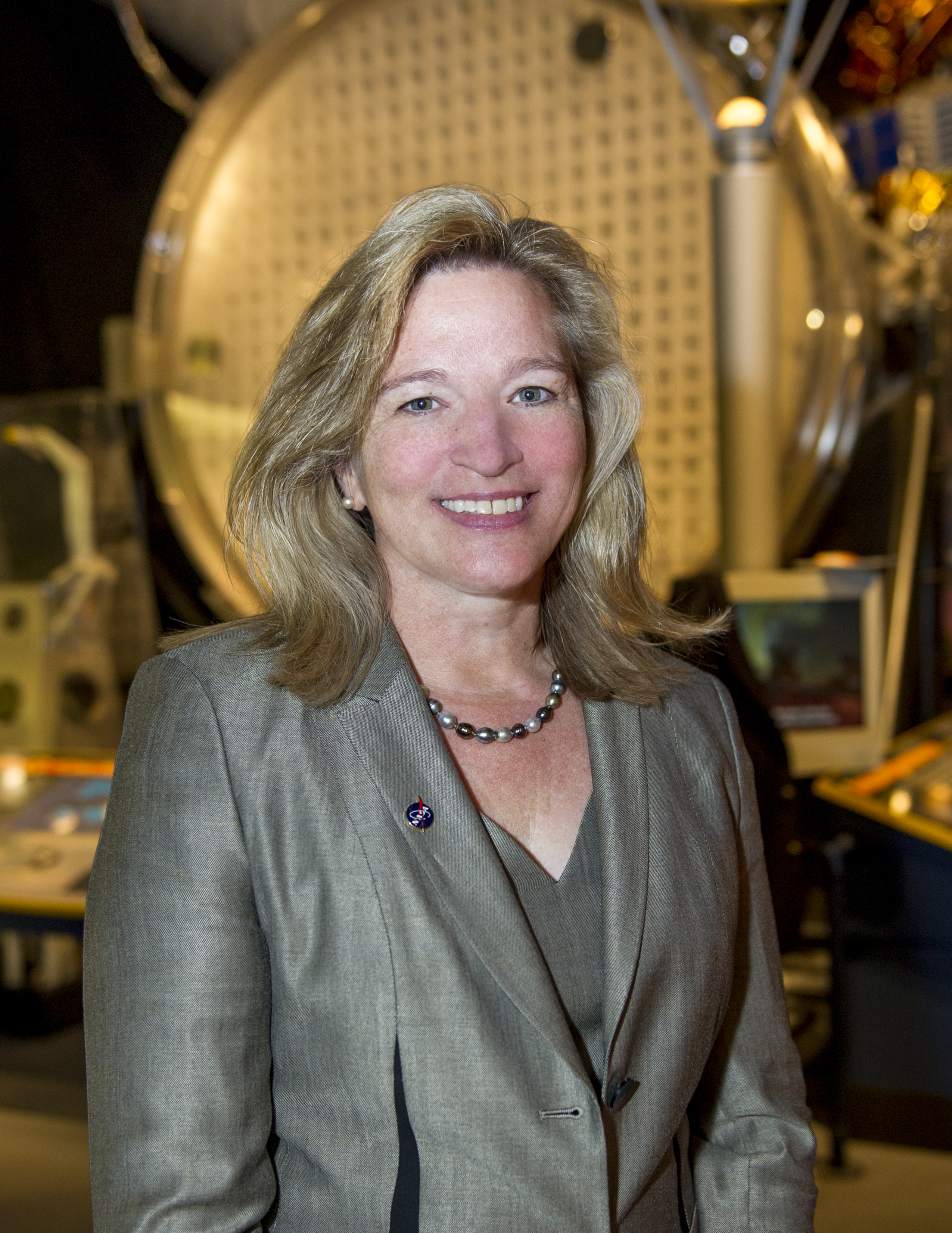 Dr. Ellen Stofan, Chief Scientist, National Aeronautics and Space Administration at National Air and Space Museum Event - Close Encounters of the Planetary Minds